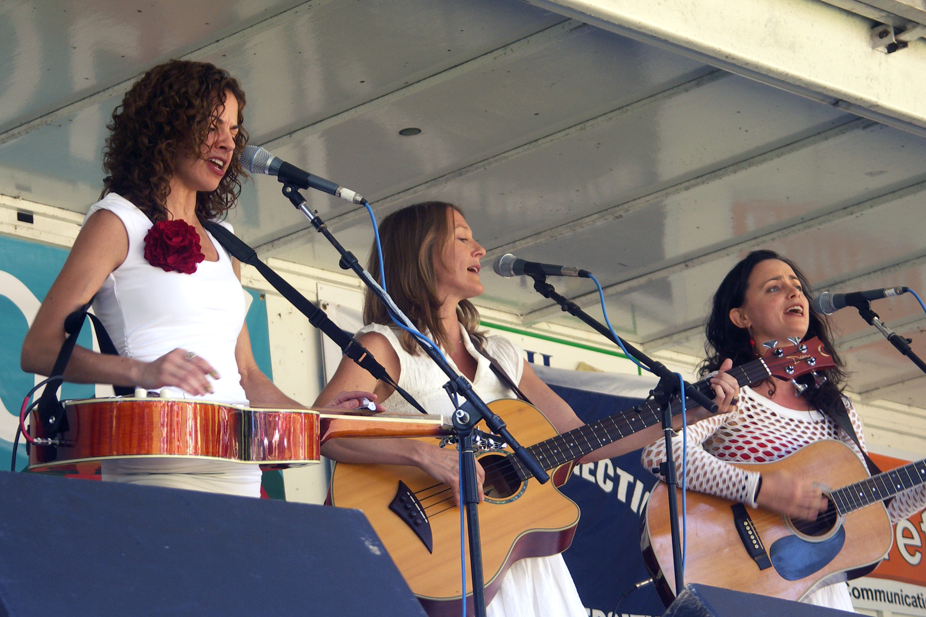 Red Molly Trio performing at the CT Folk Festival, Edgerton Park, New Haven CT